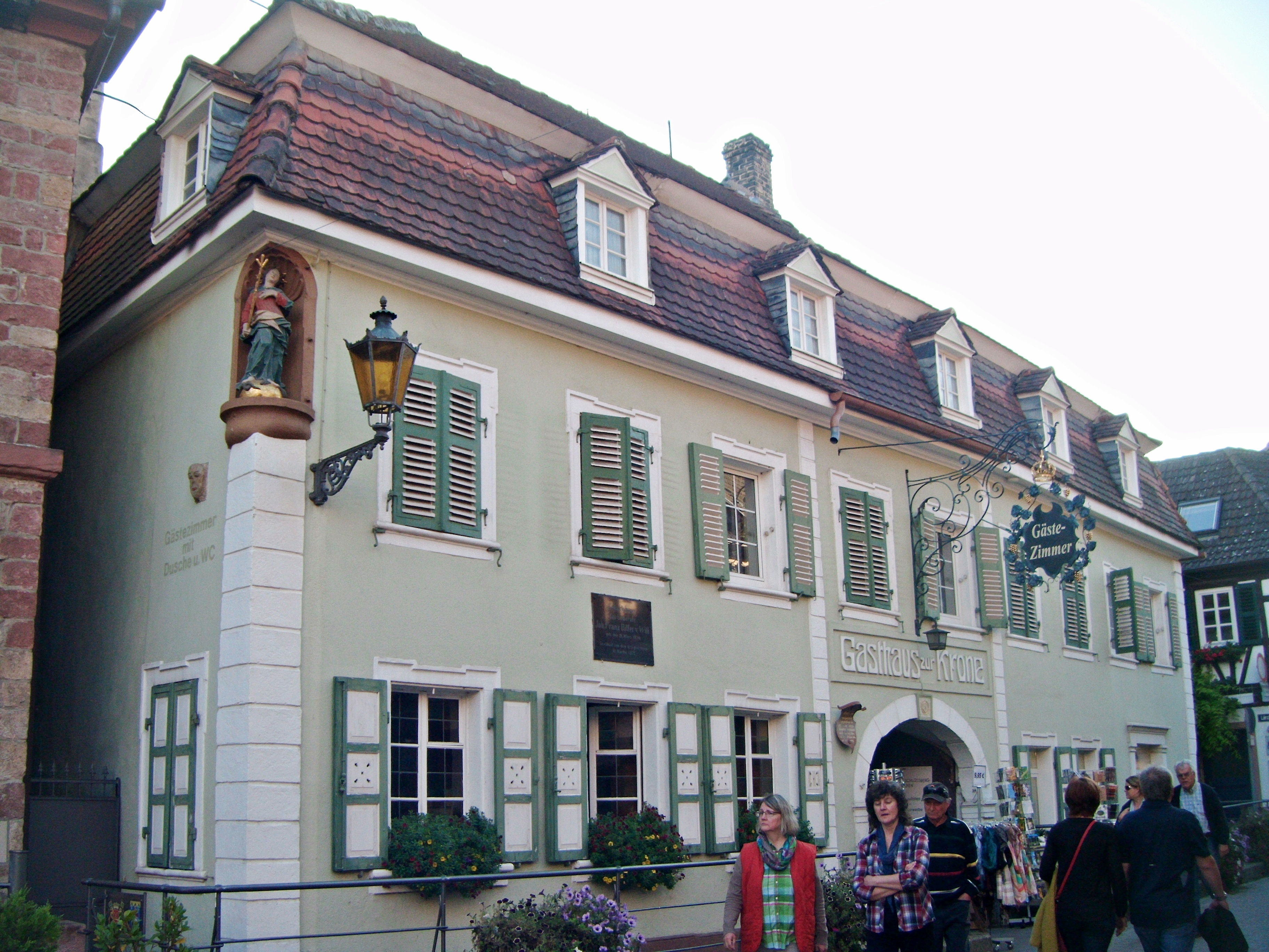 Sankt Martin (Pfalz), Geburtshaus General Franz Ritter von Will (1830-1912), Tanzstraße 11